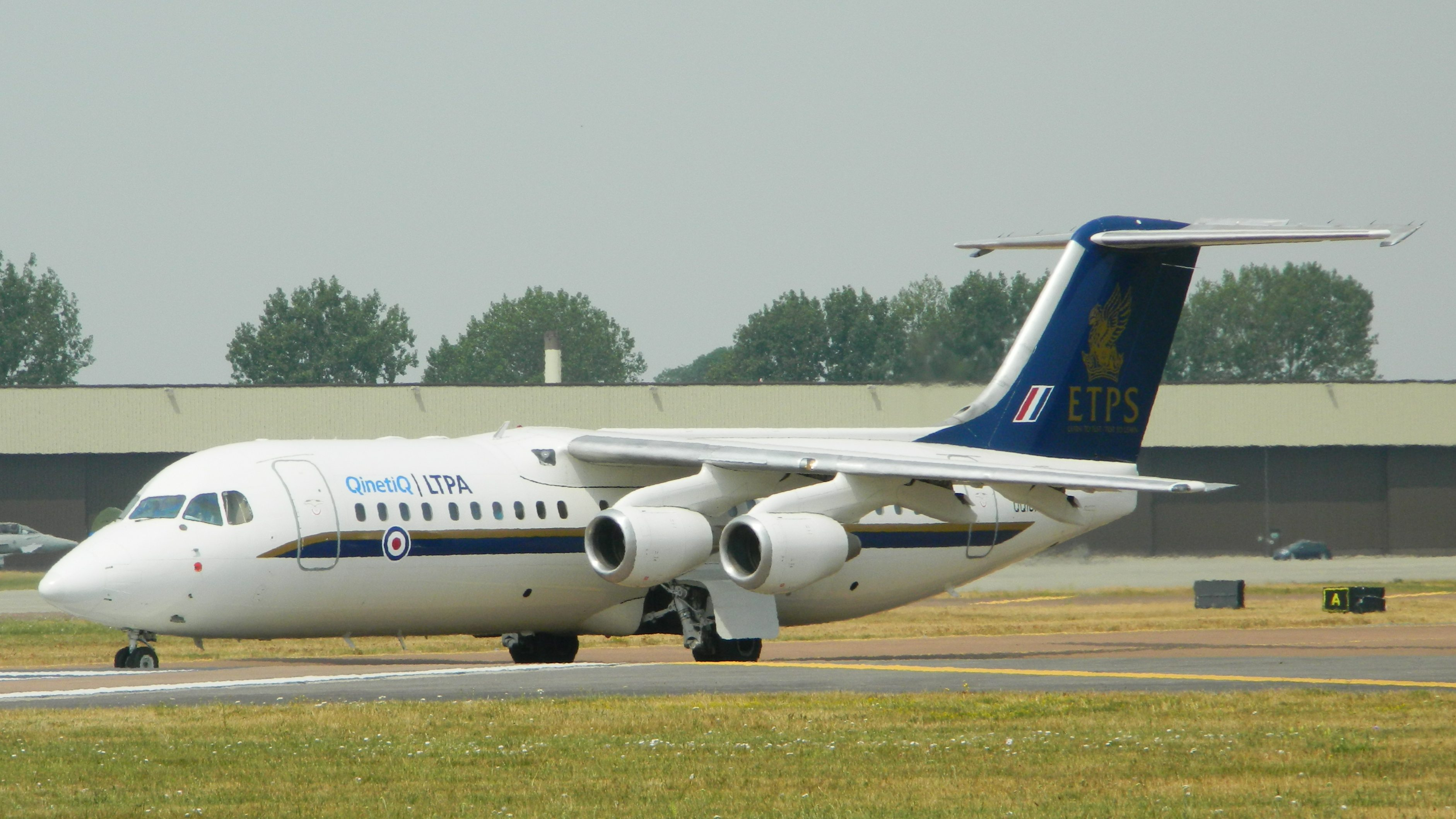 A British Aerospace RJ100 serial number QQ101 operated by QienetiQ and the Empire Test Pilot's School departs RAF Fairford on the Royal International Air Tattoo departure day Monday 22 July 2013.